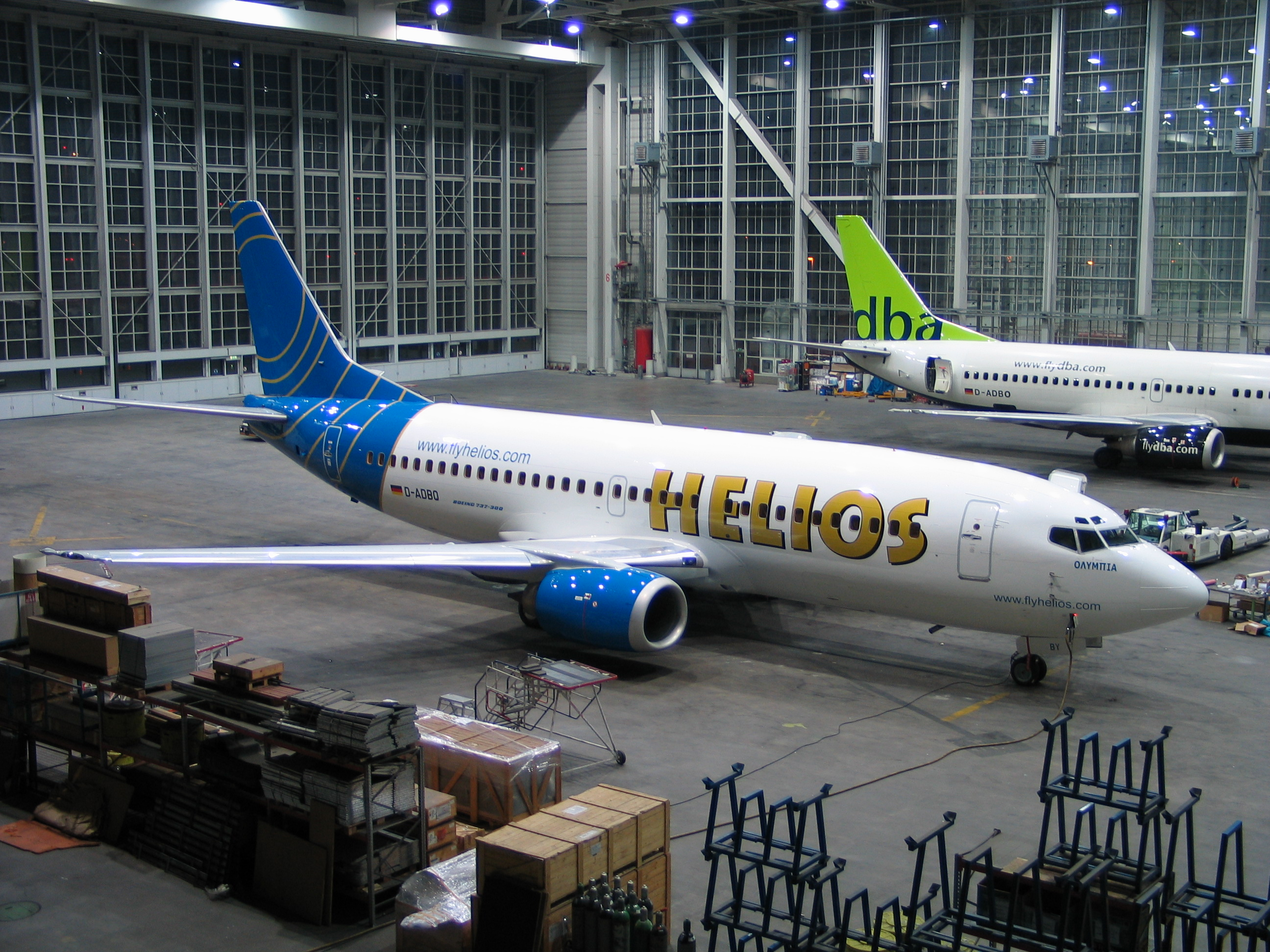 Photo taken shortly before delivery to the new owner on 15. of April, 2004 at 02:34 in the night inside the maintenance hangar 3 west of the Munich Airport. The aircraft still shows the original registration D-ADBQ